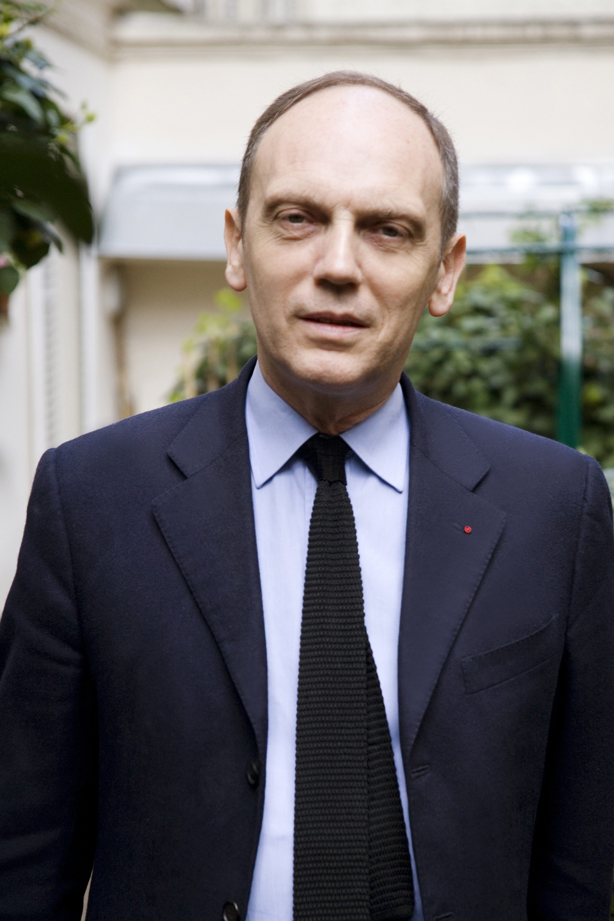 Thierry Coudert.